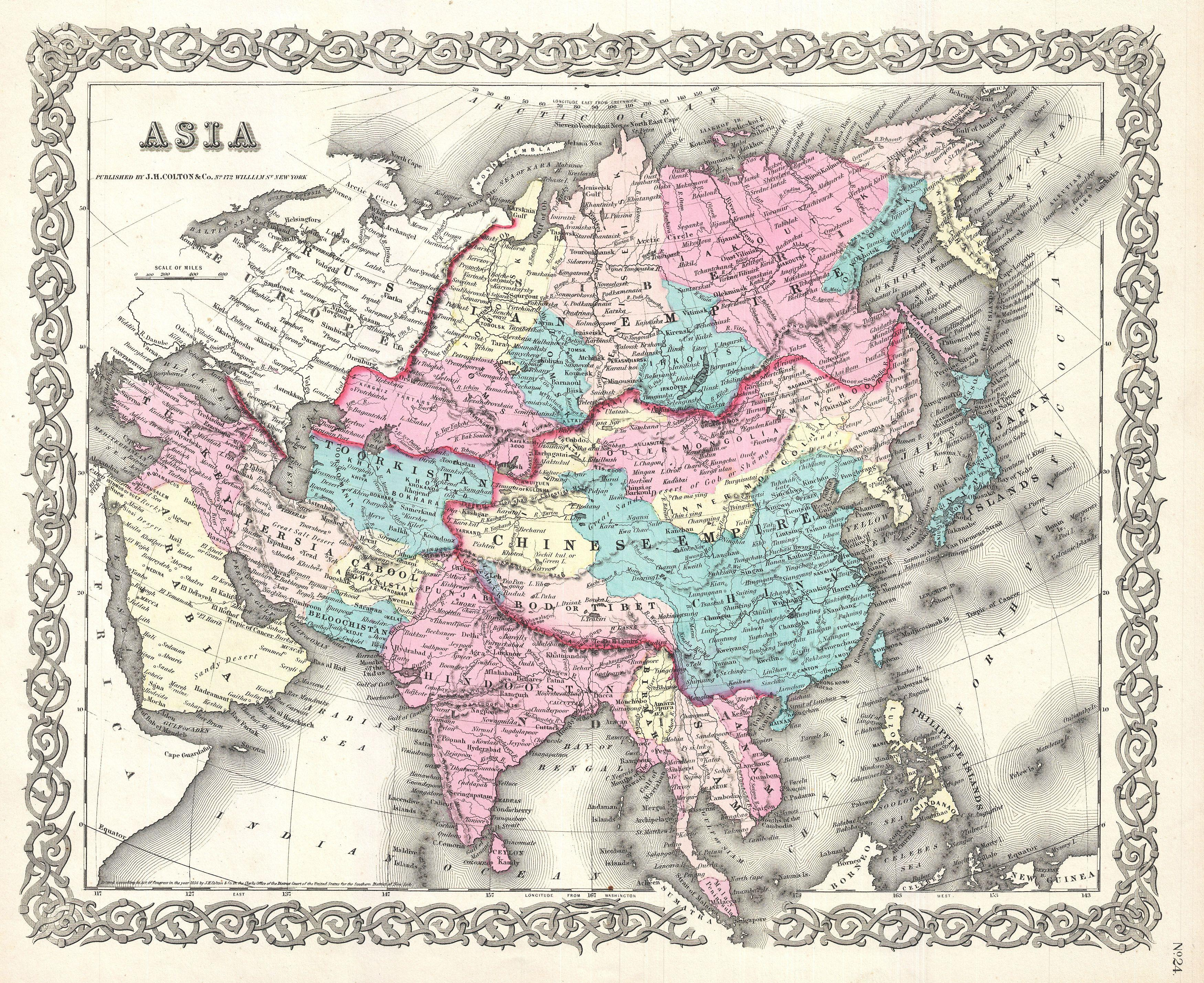 A beautiful 1855 first edition example of Colton's map of Asia. Covers from the Mediterranean to Siberia and from the Arctic to Singapore. Color coded according to regions. Includes Tibet, Korea and Ladak in within the borders of the Chinese Empire. Identifies both the Great Wall and the Great Canal in China. Taiwan or Formosa is mapped vaguely, representing the poor knowledge of the region prior to the Japanese invasion and subsequent survey work in 1895. Afghanistan is divided into Cabool and the southern province of Beloochistan (Baluchistan). Throughout, Colton identifies various cities, towns, rivers and assortment of additional topographical details. Names Singapore, Hong Kong, Macao, Beijing, Shanghai, Edo (Yedo or Tokyo), Mecca, and countless other important cities. Surrounded by Colton's typical spiral motif border. Dated and copyrighted to J. H. Colton, 1855. Published from Colton's 172 William Street Office in New York City. Issued as page no. 24 in volume 2 of the first edition of George Washington Colton's 1855 Atlas of the World .